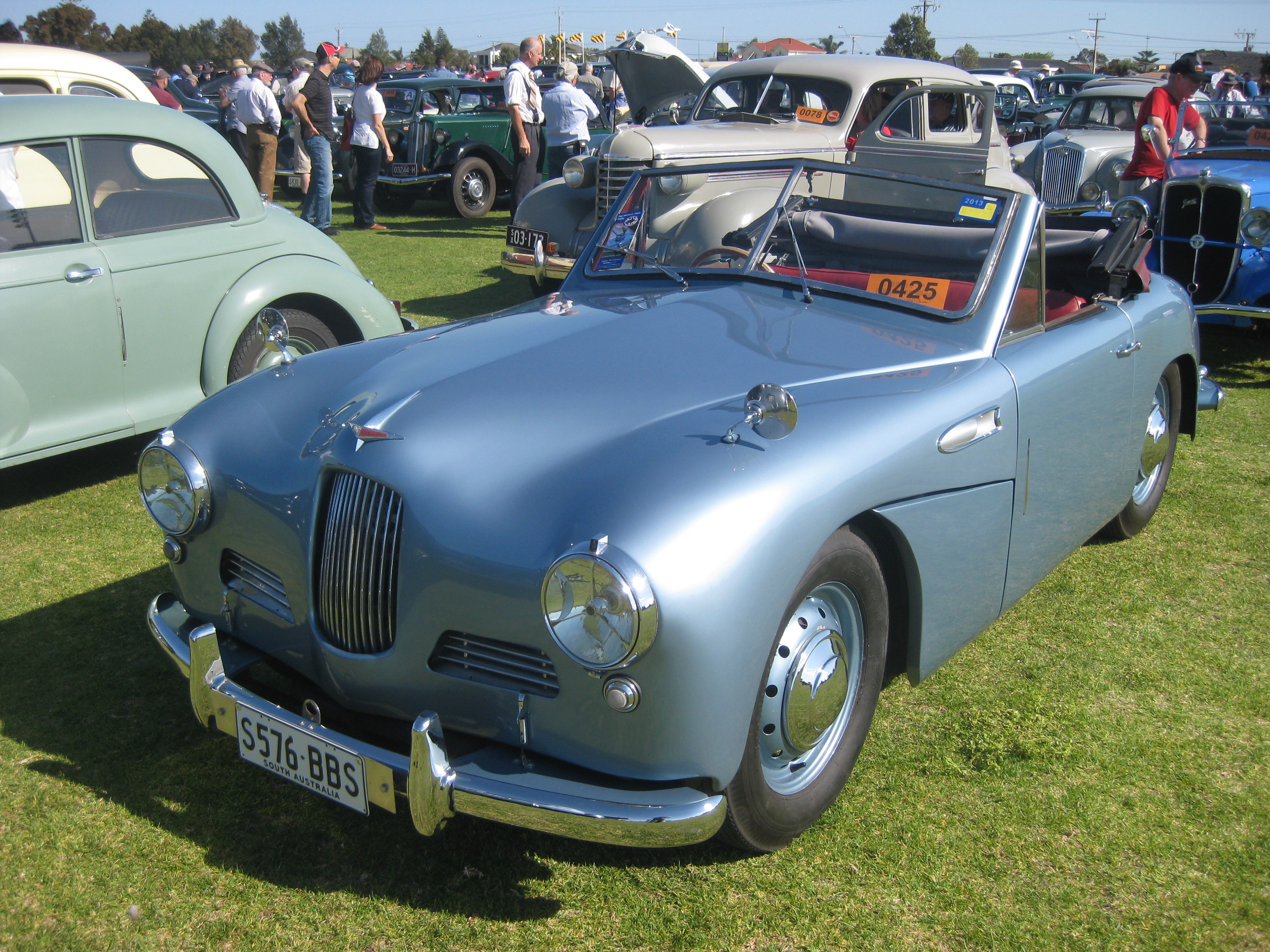 Jowett Jupiter. This is one of six Jupiters bodied by coachbuilder Richard Mead of Dorridge, Warwickshire.